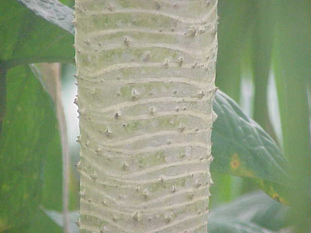 Species: Pandanus sp. Family: Pandanaceae Image No. 1